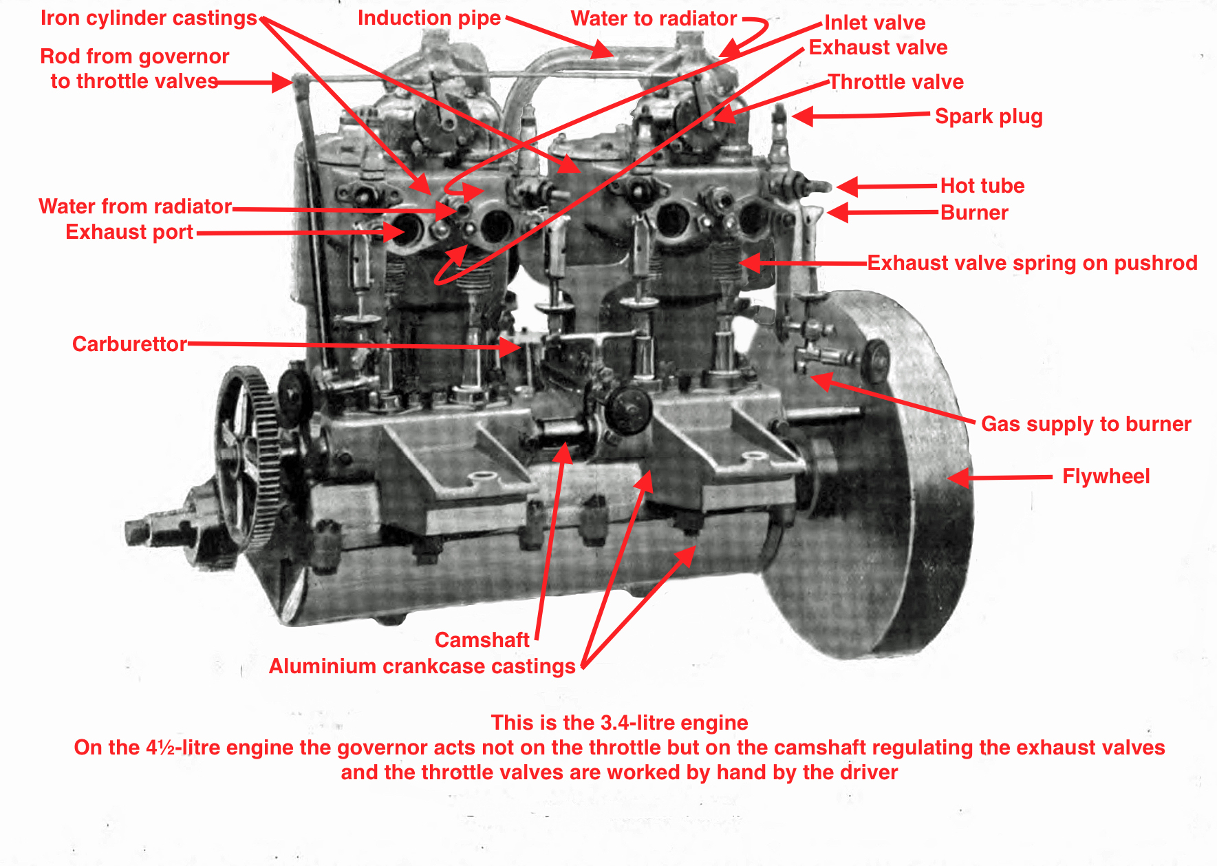 1902 Daimler 12 engine with annotations by Eddaido